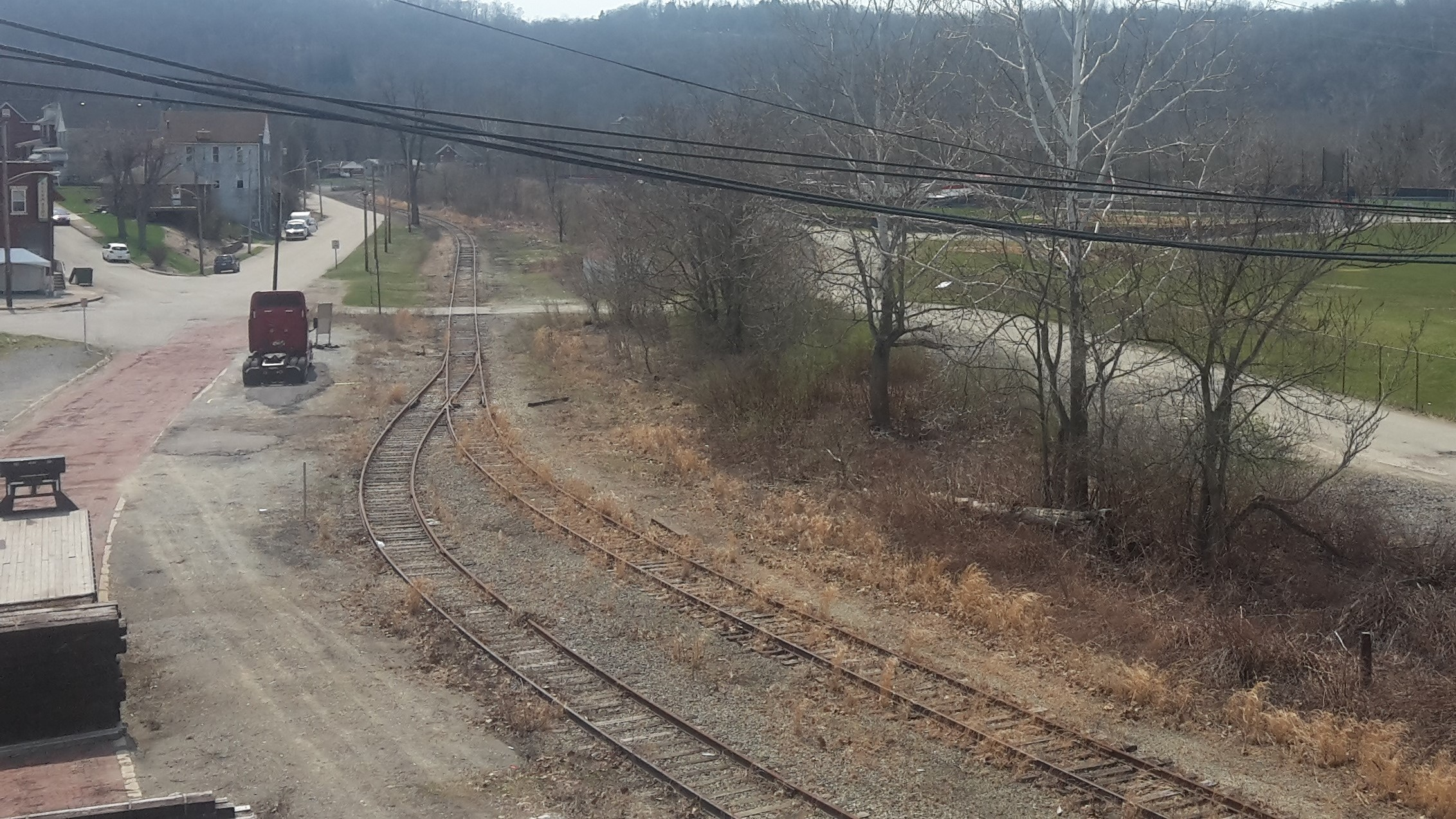 The Trafford siding of the former Turtle Creek Industrial Railroad in April 2018